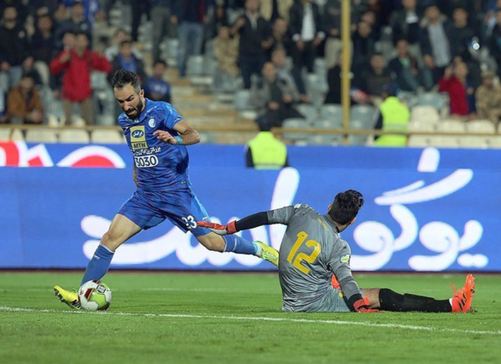 دیدار تیم‌های فوتبال استقلال و صنعت نفت